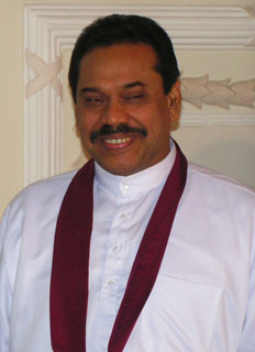 Sri Lankan President Mahinda Rajapaksa during a visit of US under secretary R. Nicholas Burns to Colombo on January 23, 2006. Photo taken in the U.S. Embassy; Temple Trees, Colombo, Sri Lanka.